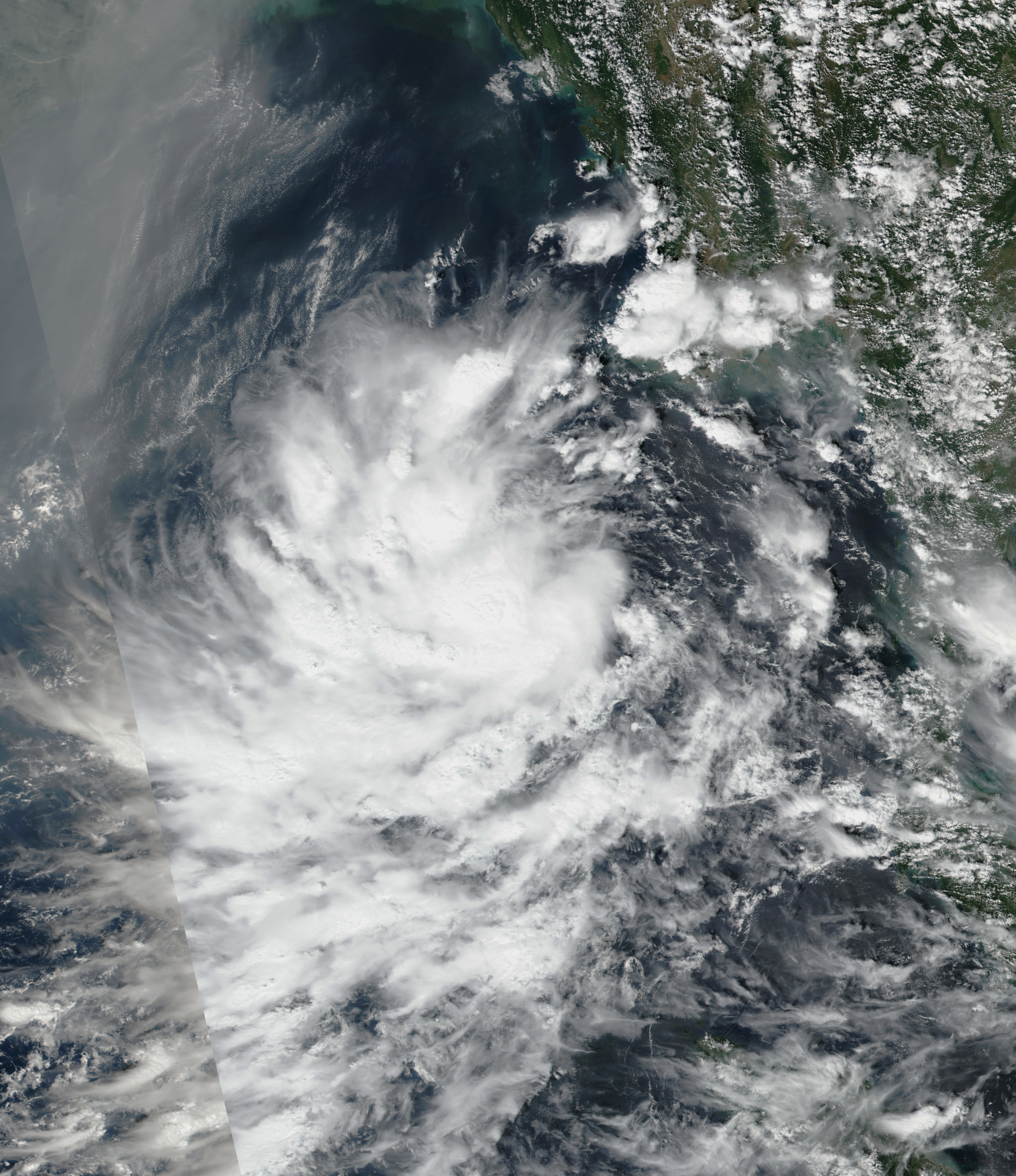 The remnants of a severe tropical storm Matmo reorganized into cyclone Bulbul over the Andaman Sea on November 4, 2019.